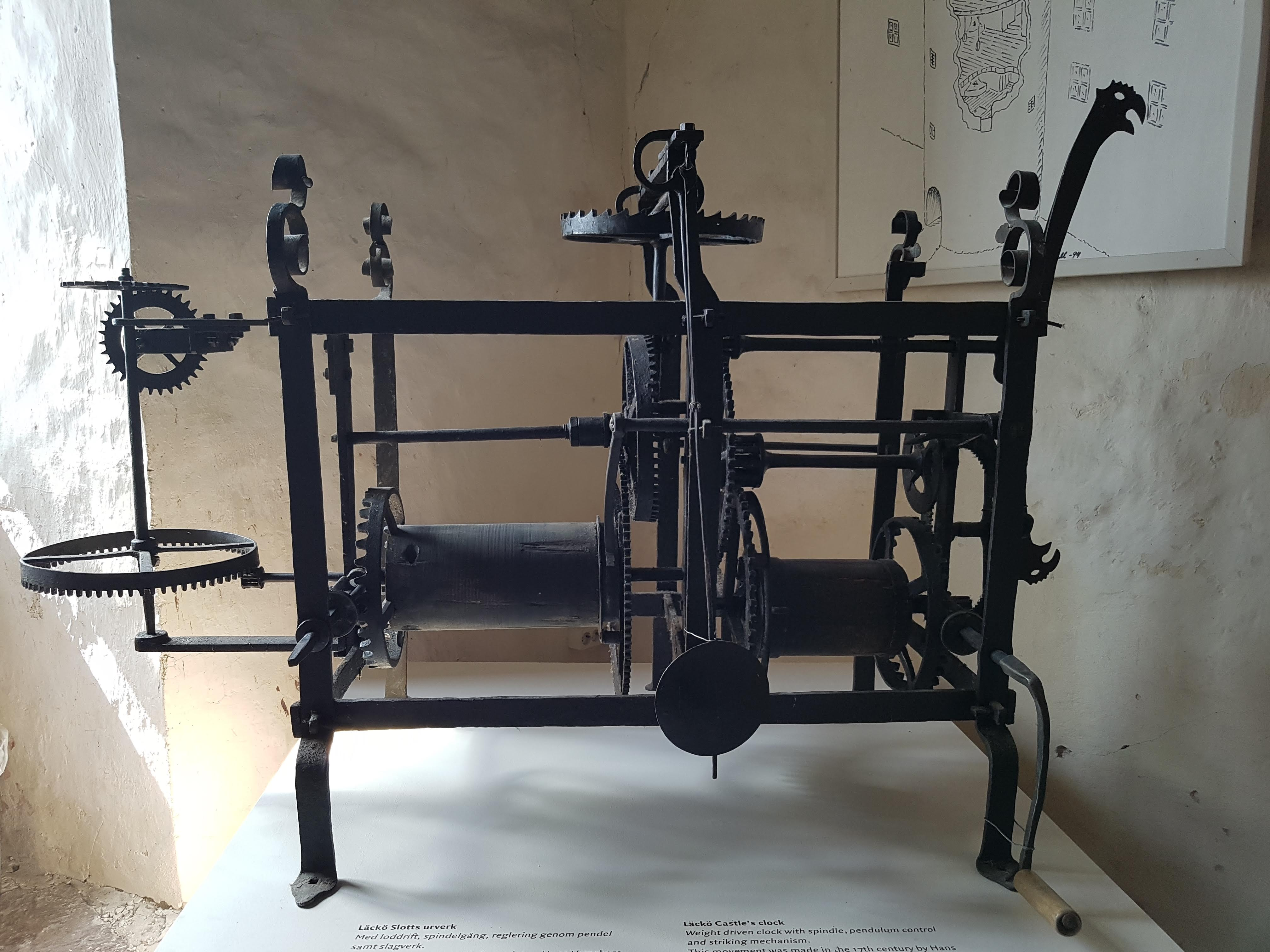 Läckö slott interior showing a mechanical clock